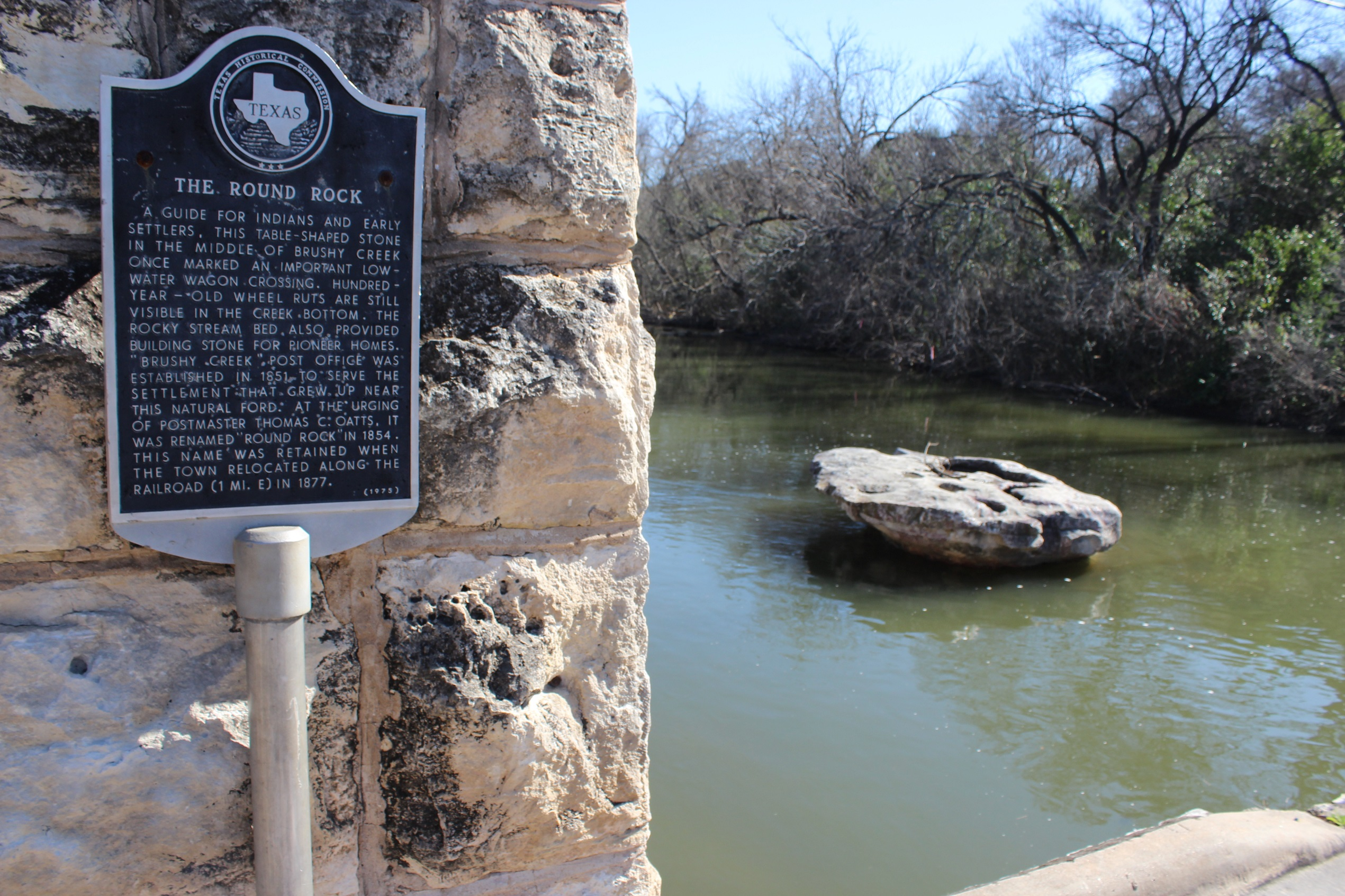 The Round Rock. A guide for Indians and early settlers, this table-shaped stone in the middle of Brushy Creek once marked an important low-water wagon crossing. Hundred-year-old wheel ruts are still visible in the creek bottom. The rocky stream bed also provided building stone for pioneer homes. "Brushy Creek" post office was established in 1851 to serve the settlement that grew up near this natural ford. At the urging of postmaster Thomas C. Oatts, it was renamed "Round Rock" in 1854. This name was retained when the town relocated along the railroad (1 mi. E) in 1877. (1975) #9330